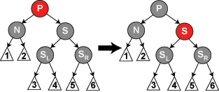 Produced by Derrick Coetzee in Illustrator and Photoshop for the red-black tree page. Size reduced with pngcrush.